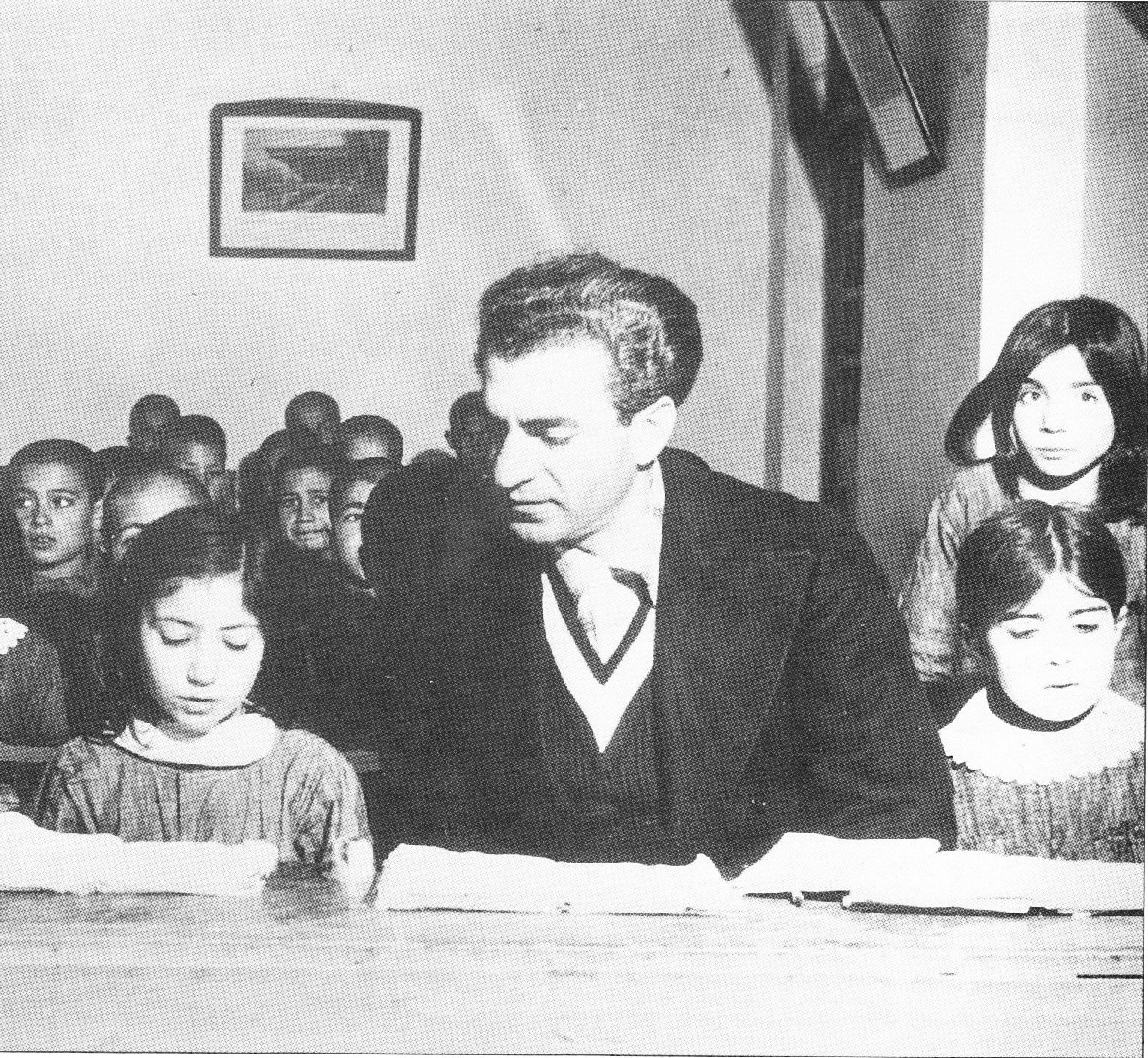 Shah Mohammad Reza Pahlavi visits a co-educational school, 1955